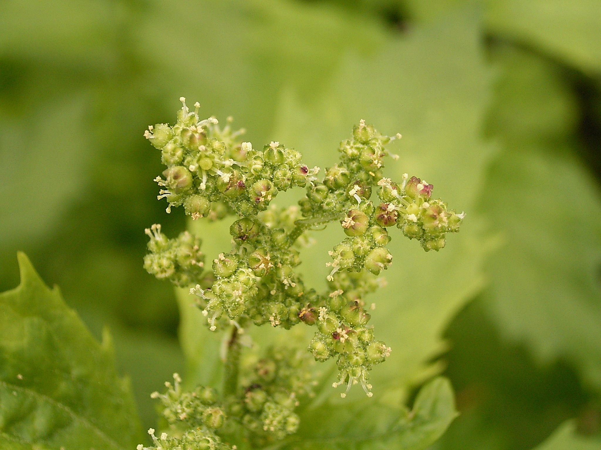 Chenopodium murale growing in La Fajana, Barlovento, La Palma, Canary Islands